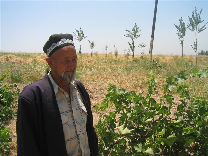 Tajik leaseholder with his young vines, Tursunzoda district